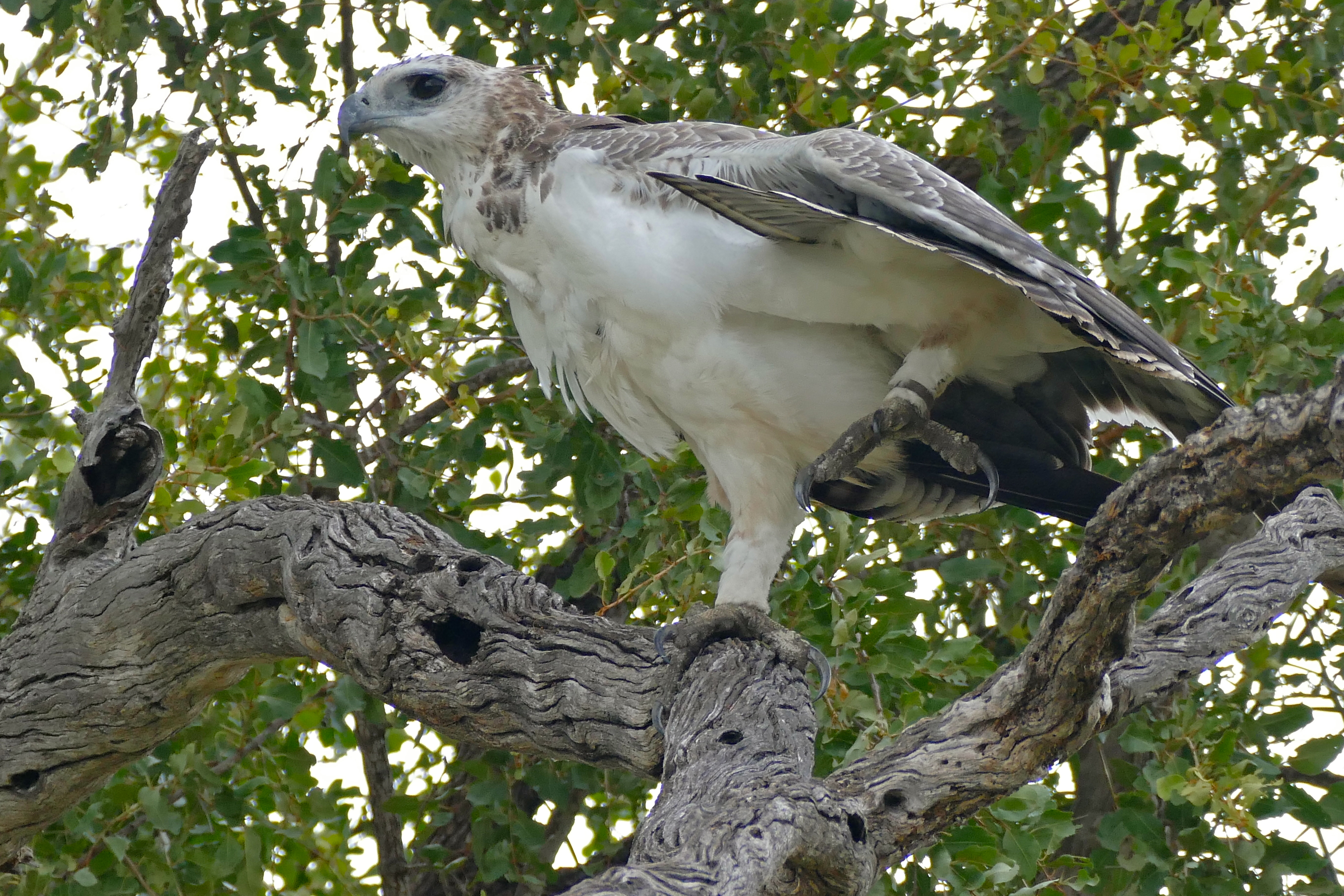 S90 Road South of Olifants, Kruger NP, SOUTH AFRICA